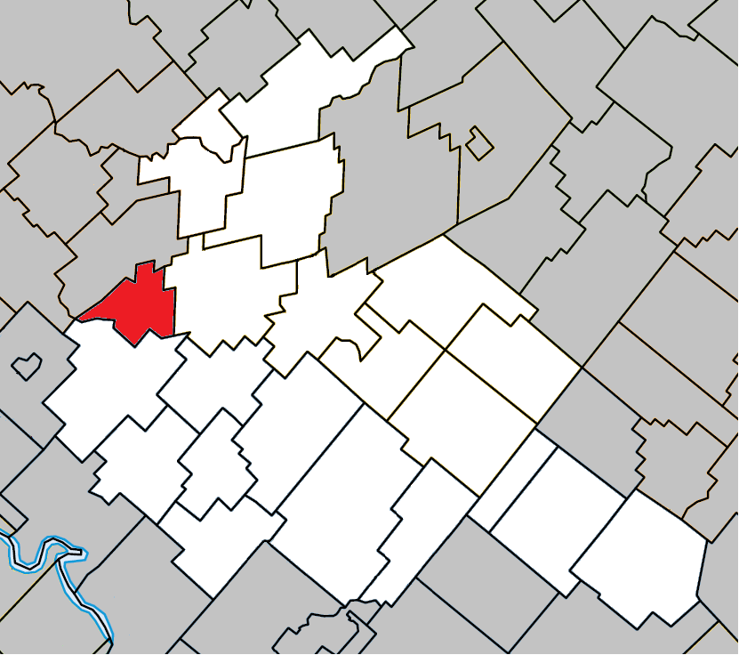 Location of Saint-Samuel, Quebec within Arthabaska Regional County Municipality.